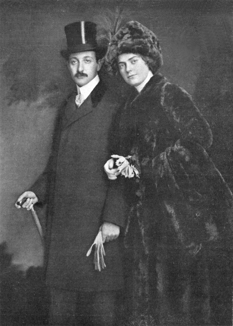 The physicist Robert von Lieben (1878–1913) and his wife, actress Anny Schindler